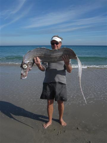 Trachipterus arcticus collected in USA.